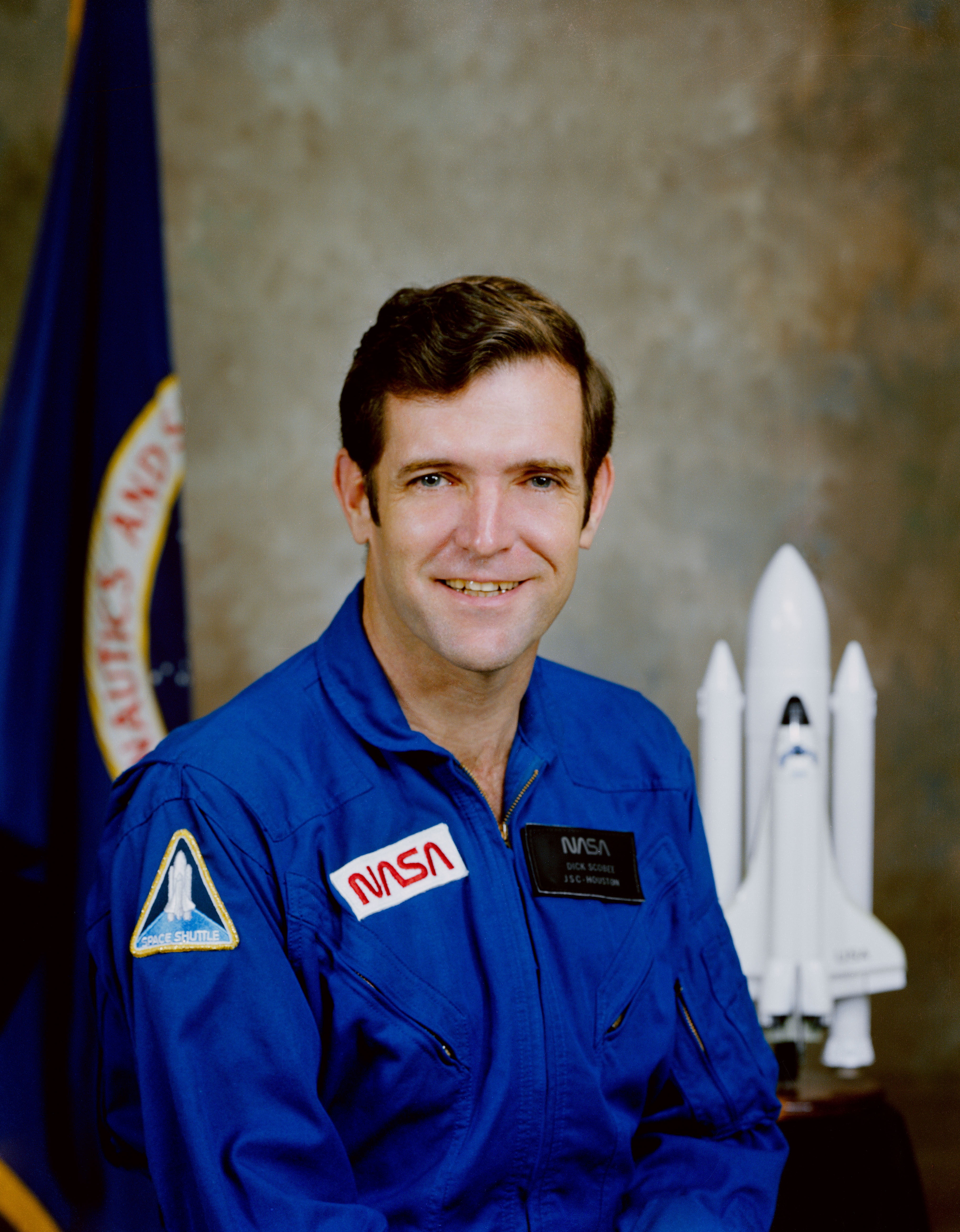 S78-35293 (31 Jan 1978) --- Astronaut Francis R. Scobee.